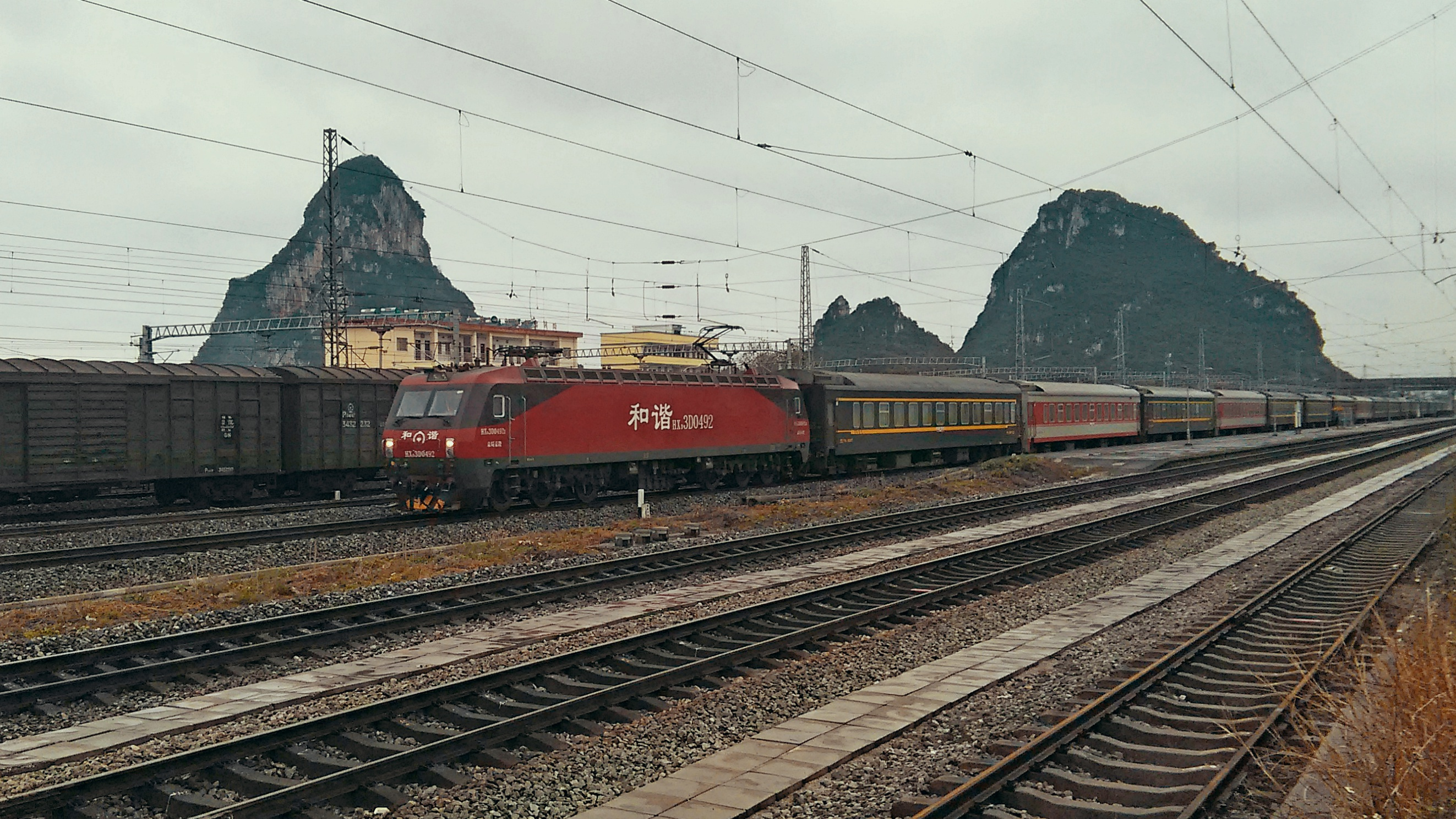 HXD3D-0492 in Jinde Railway Station with K21 Express Train.